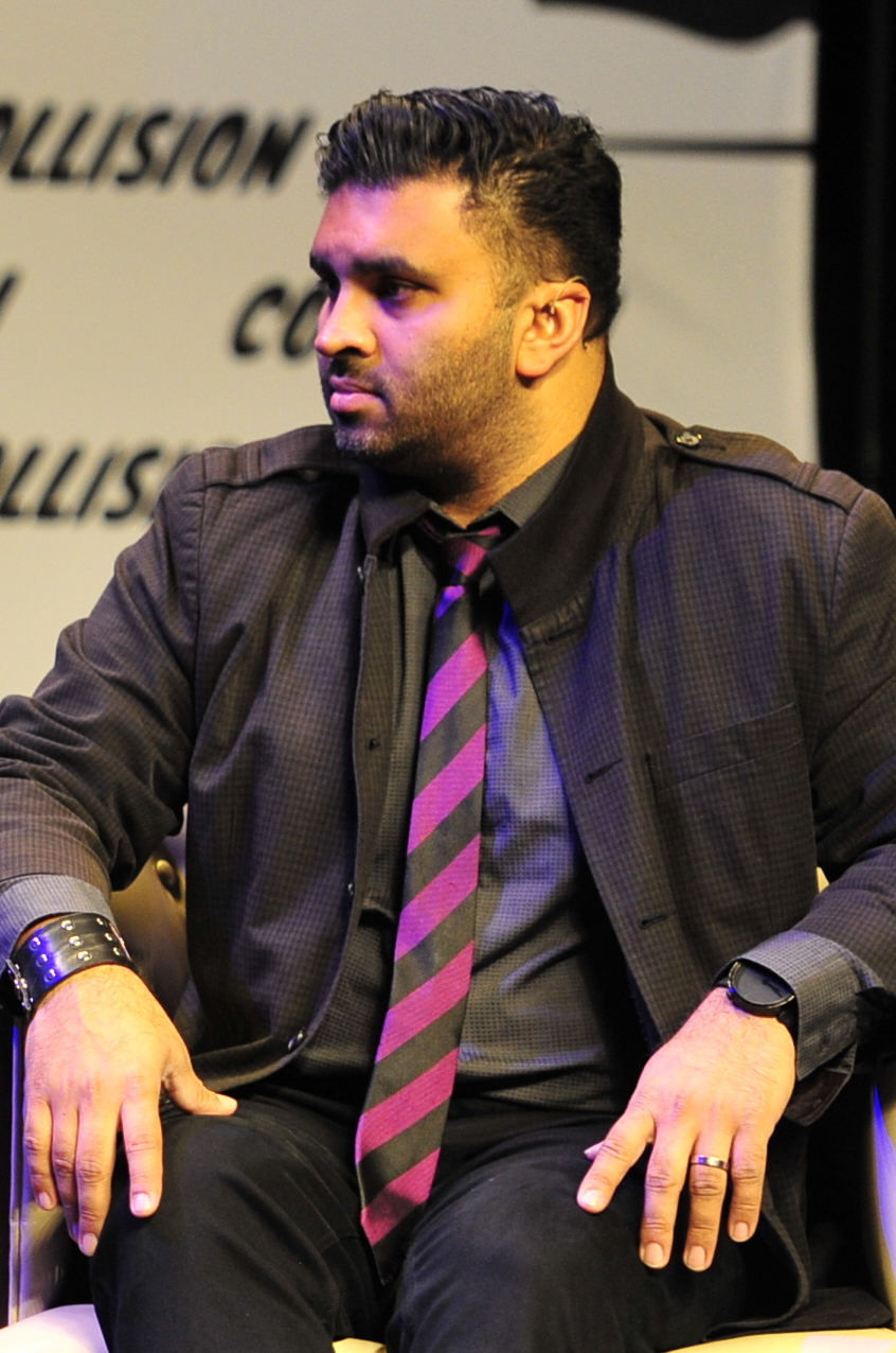 Anthony Wood and Nilay Patel at Collision Conference 2016